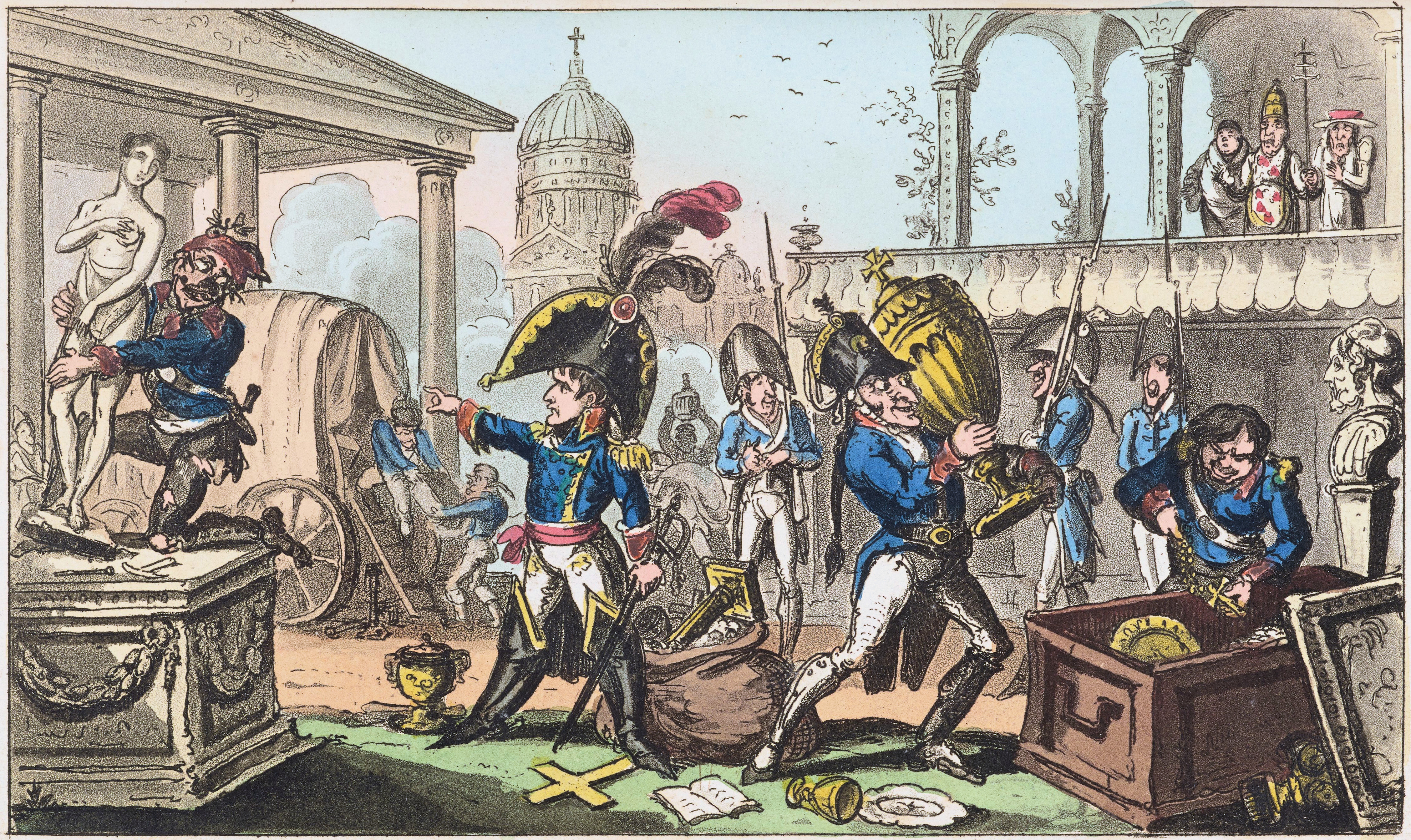 Seizing the Italian Relics